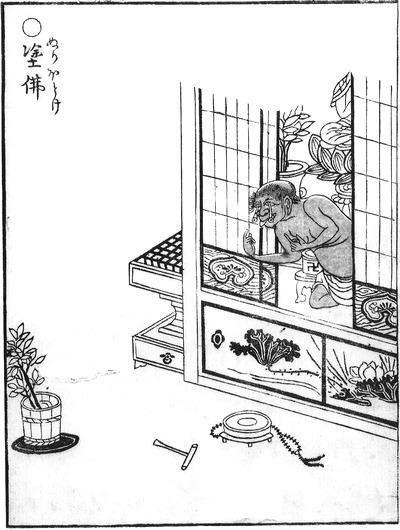 Nuribotoke (塗仏, an animated corpse with blackened flesh and dangling eyeballs) from the Gazu Hyakki Yakō (画図百鬼夜行)